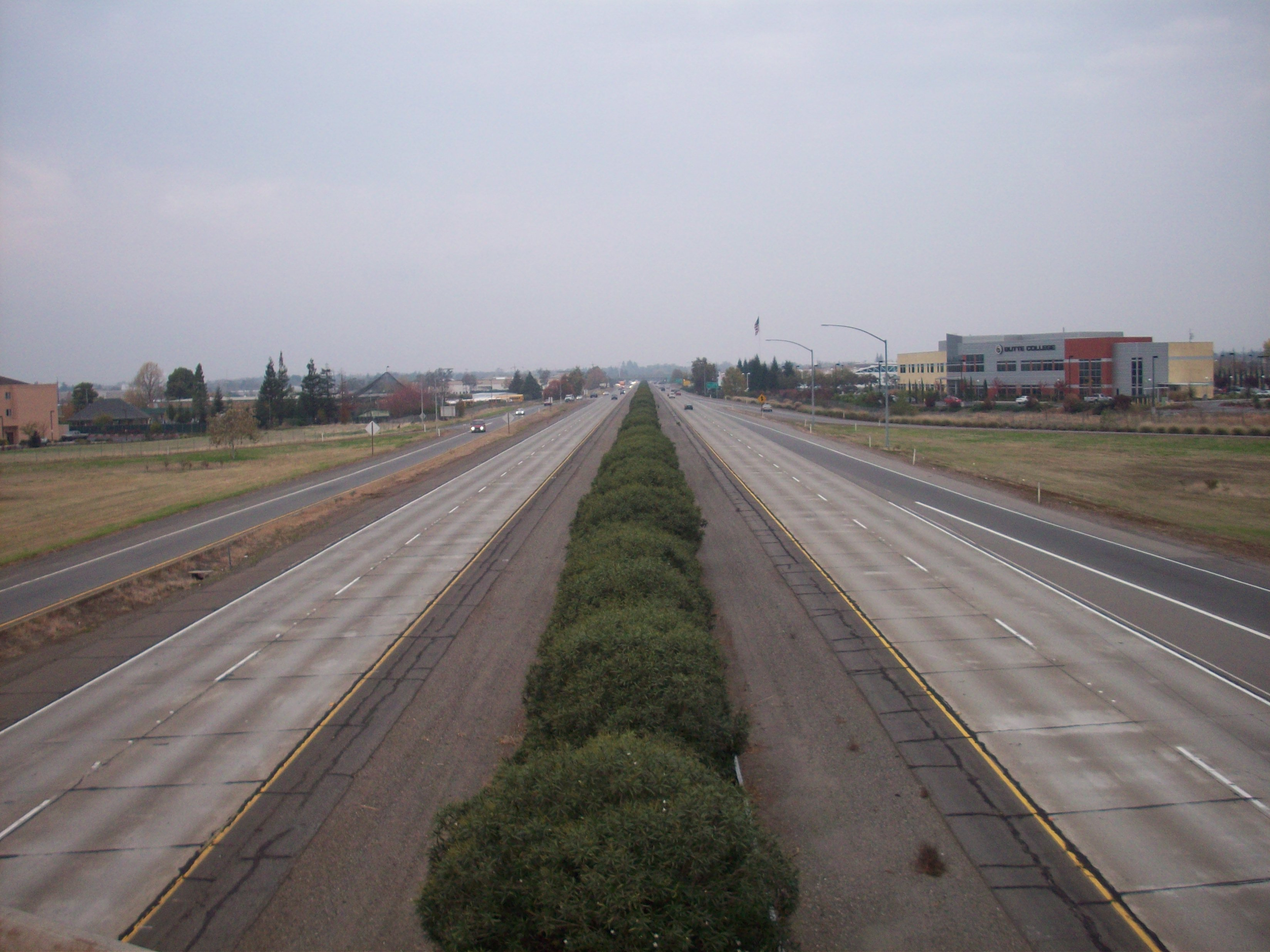 I took this picture myself on November 26, 2008. This image is State Highway 99 in Chico, California as viewed facing north from the bridge where East Park Avenue becomes Skyway. I relinquish all rights.